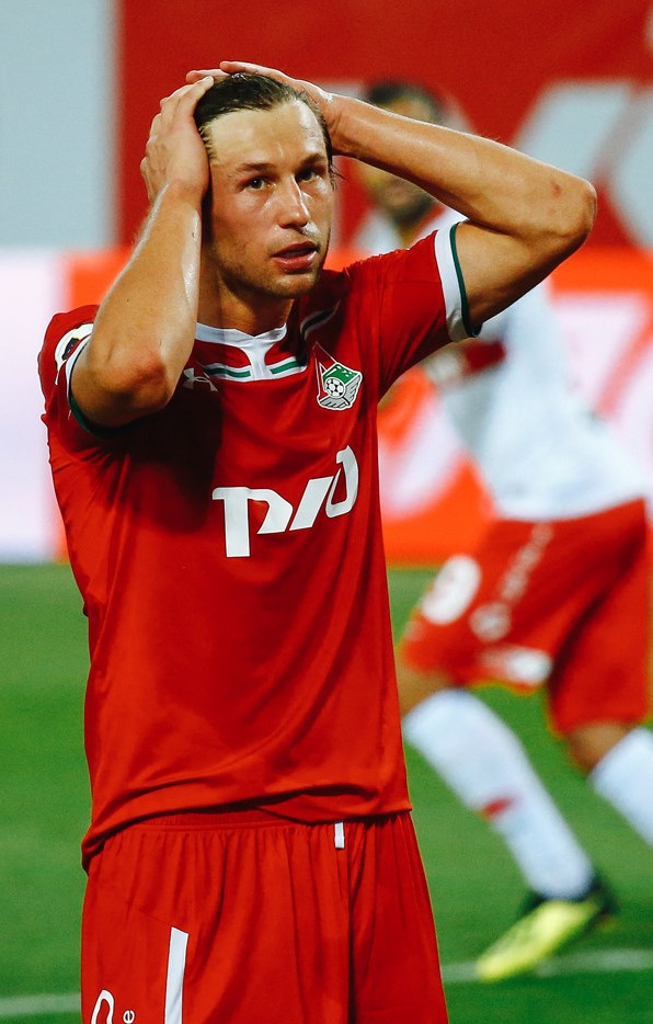 Grzegorz Krychowiak